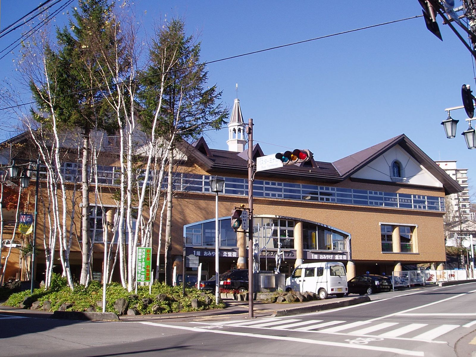 JR Bus Kanto Kusatsu Onsen Bus Terminal